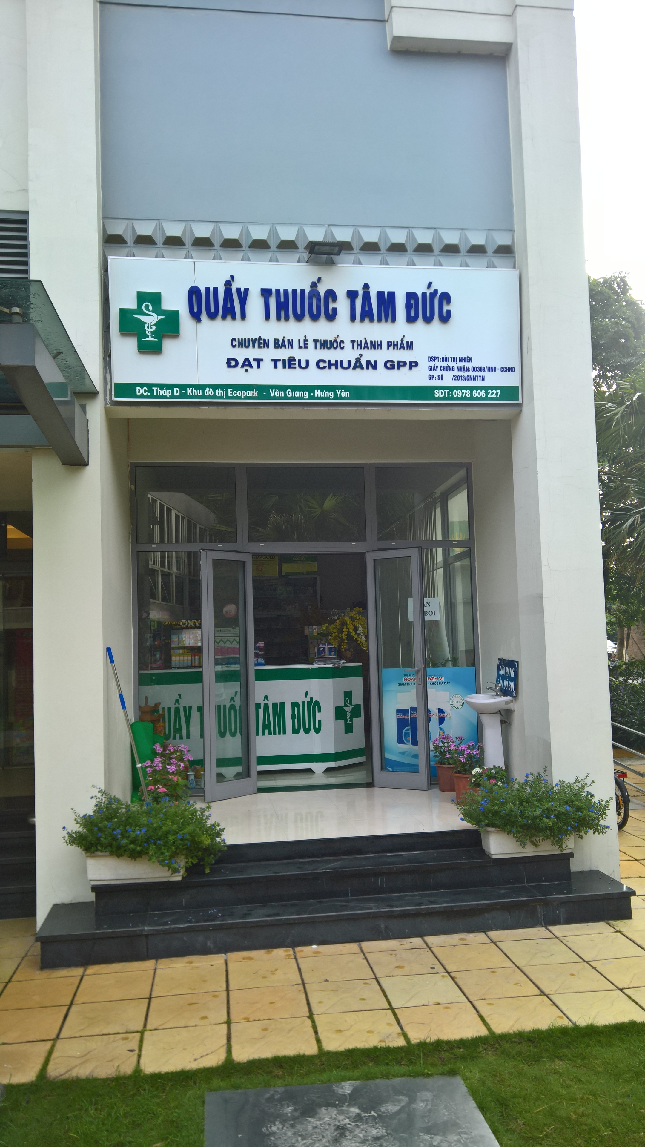 A Quầy Thuốc Tâm Đức pharmacy store.